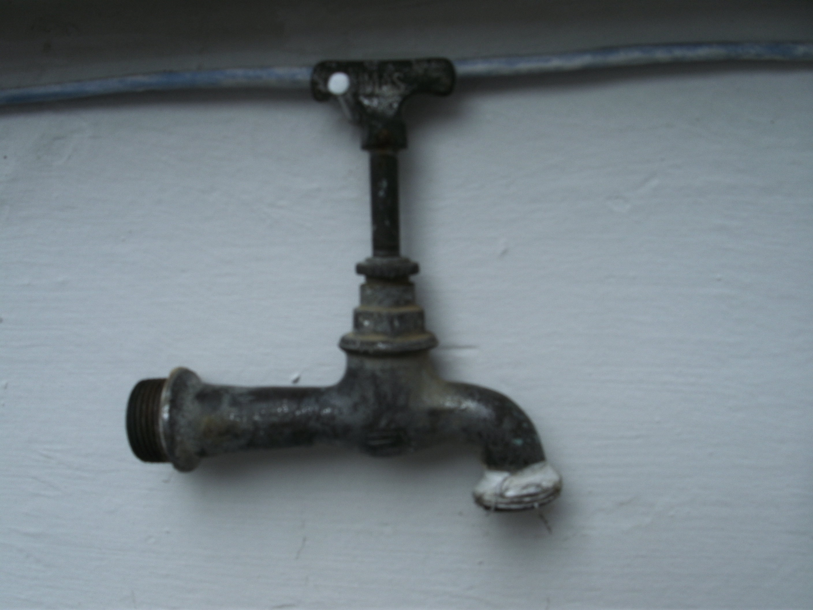 jig or tap (valve) from 60s